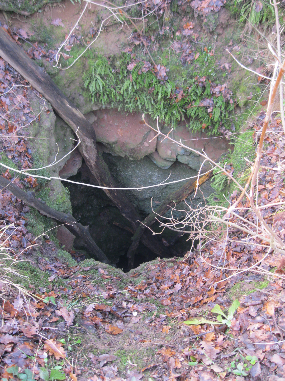 Entrance of the Arany Hole (Budakalász, Hungary)